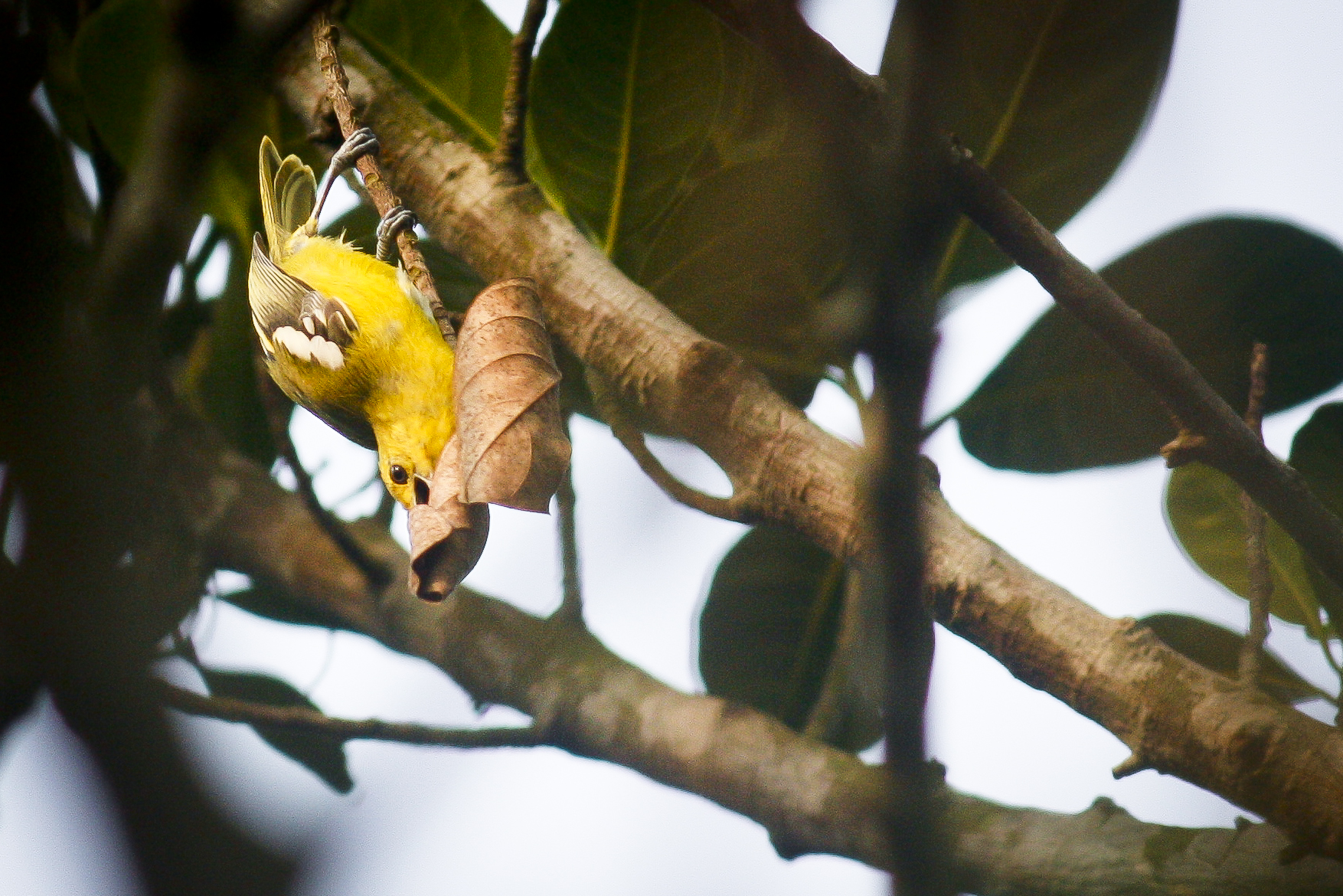 Common Iora (Aegithira tiphia)